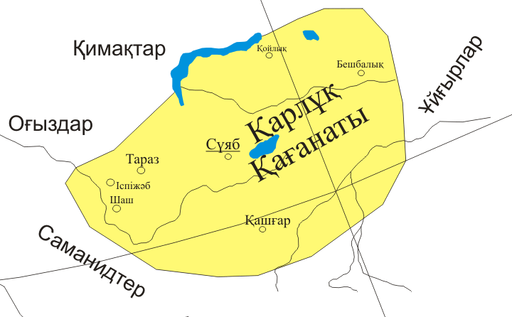 Karluk Khaganat's map